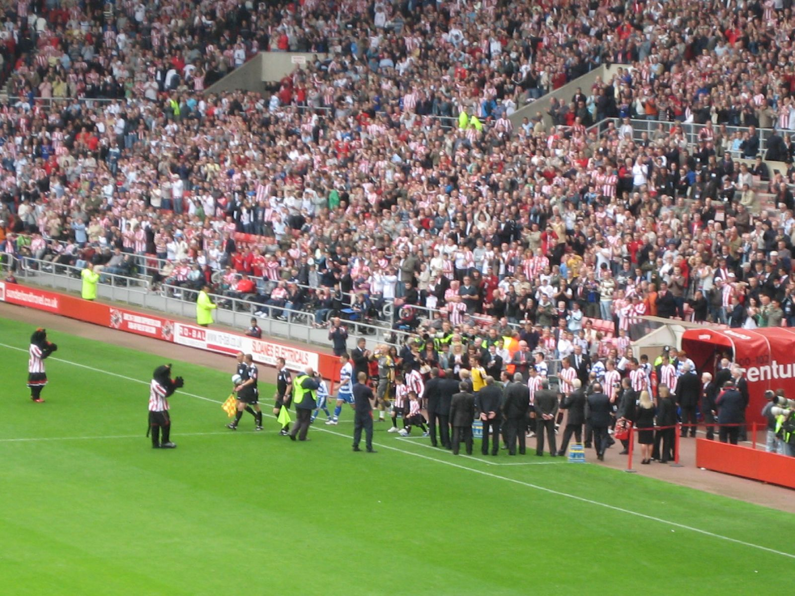 The 1973 Cup Winning Team applaud the two teams onto the pitch dkodigital photographic store